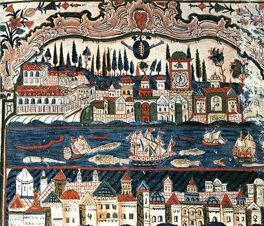 Istanbul Mural from Tsiatsiapas Mansion, 1798